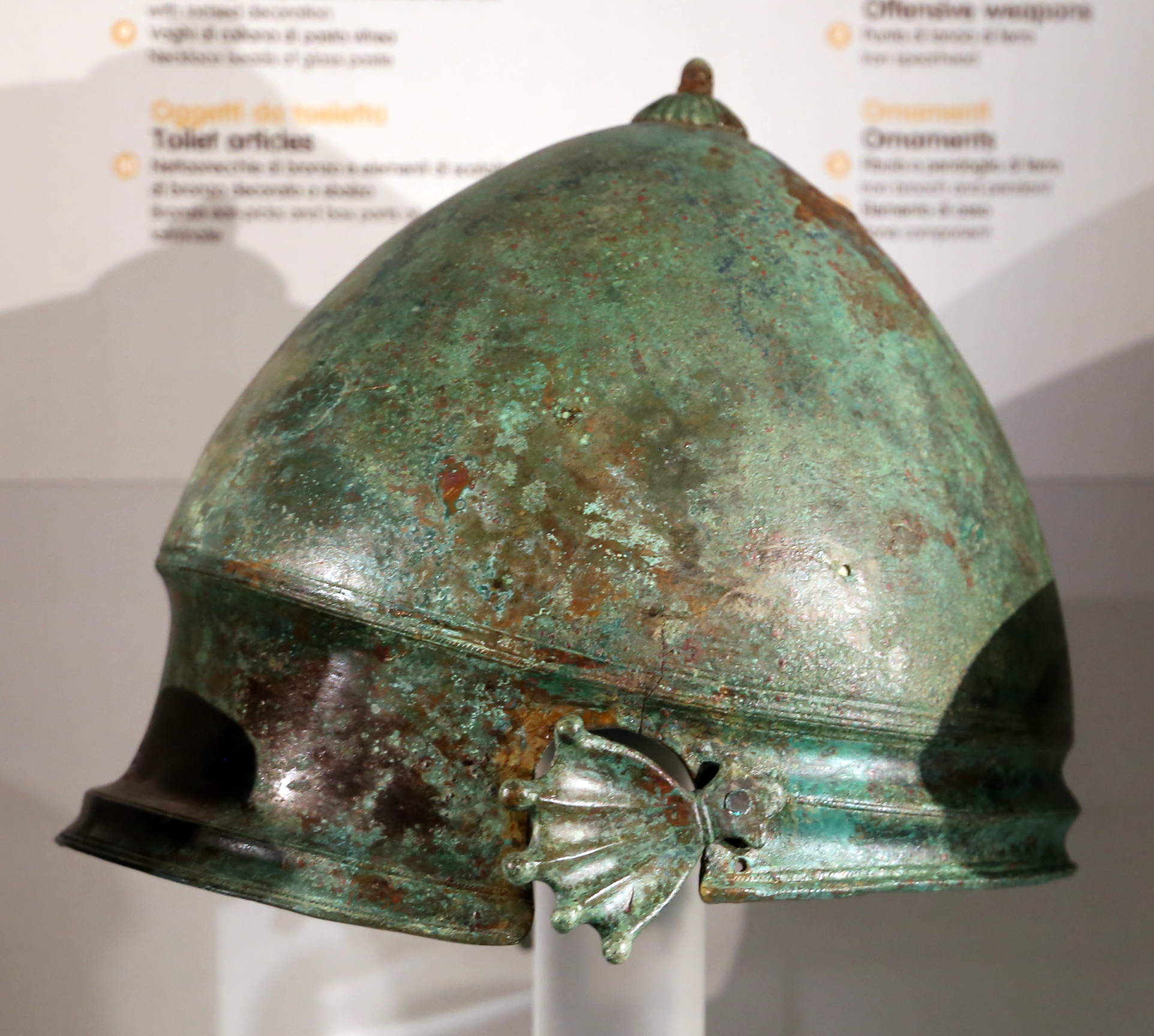 Collections of the Museo archeologico nazionale d'Abruzzo